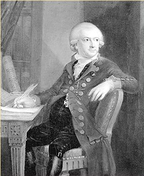 Engelbert Anton Maria von Wrede zu Melschede (1742-1808), canon of the cathedral chapters of Münster and Hildesheim, c. 1791. In 1800, he was elected Dompropst (provost) of the Münster chapter and appointed President of the Privy Council, barely two years before the secularization of the bishopric.